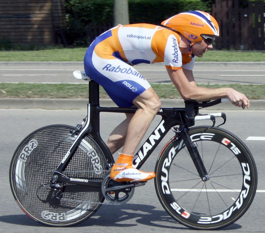 Graeme Brown at the 2009 Eneco Tour prologue